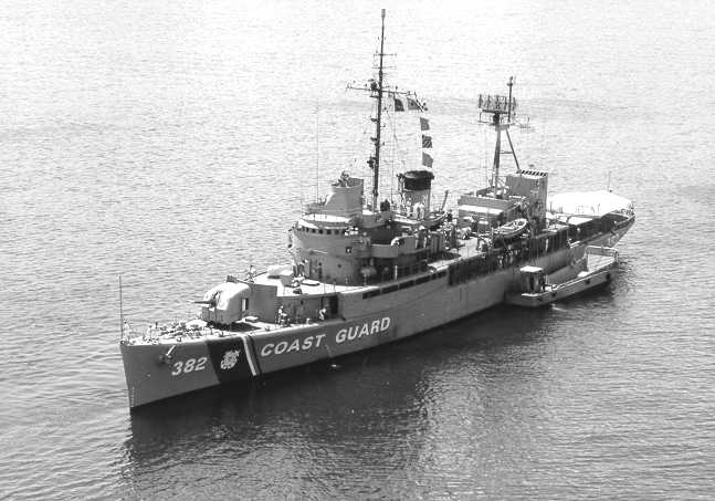 USCGC Bering Strait (WHEC-382)underway off the coast of Subic Bay, Philippines This image or file is a work of a United States Coast Guard service personnel or employee, taken or made as part of that person's official duties. As a work of the U.S. federal government, the image or file is in the public domain (17 U.S.C. § 101 and § 105, USCG main privacy policy and specific privacy policy for its imagery server).